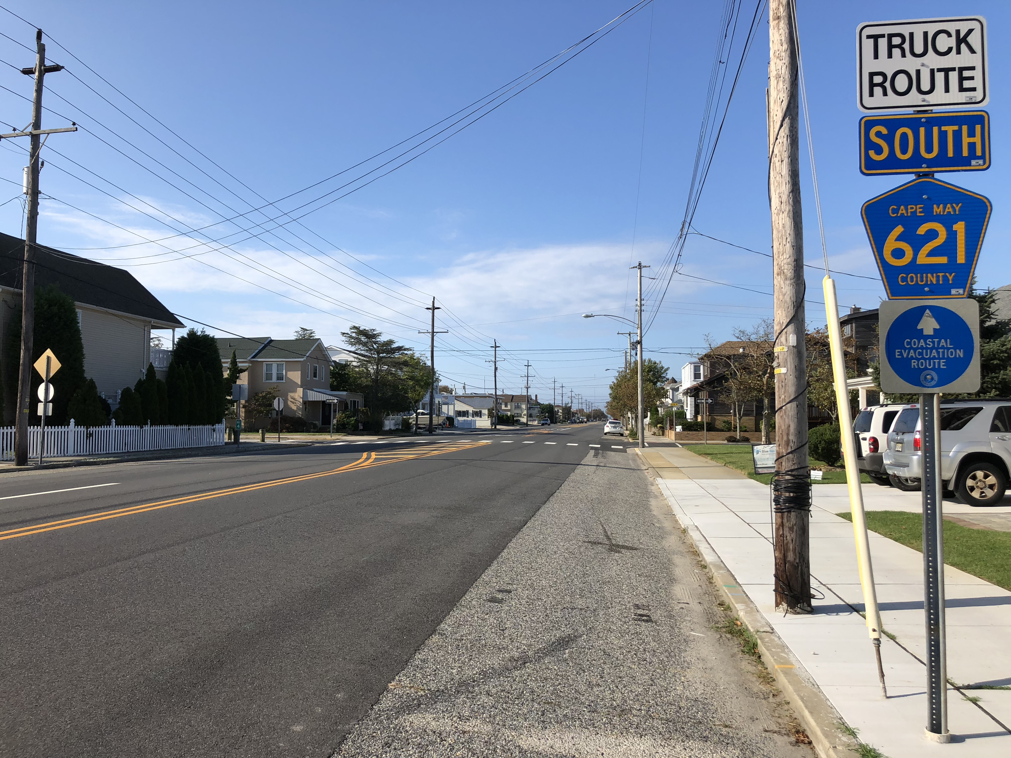 View south along Cape May County Route 621 (Pacific Avenue) at Rambler Road in Wildwood Crest, Cape May County, New Jersey